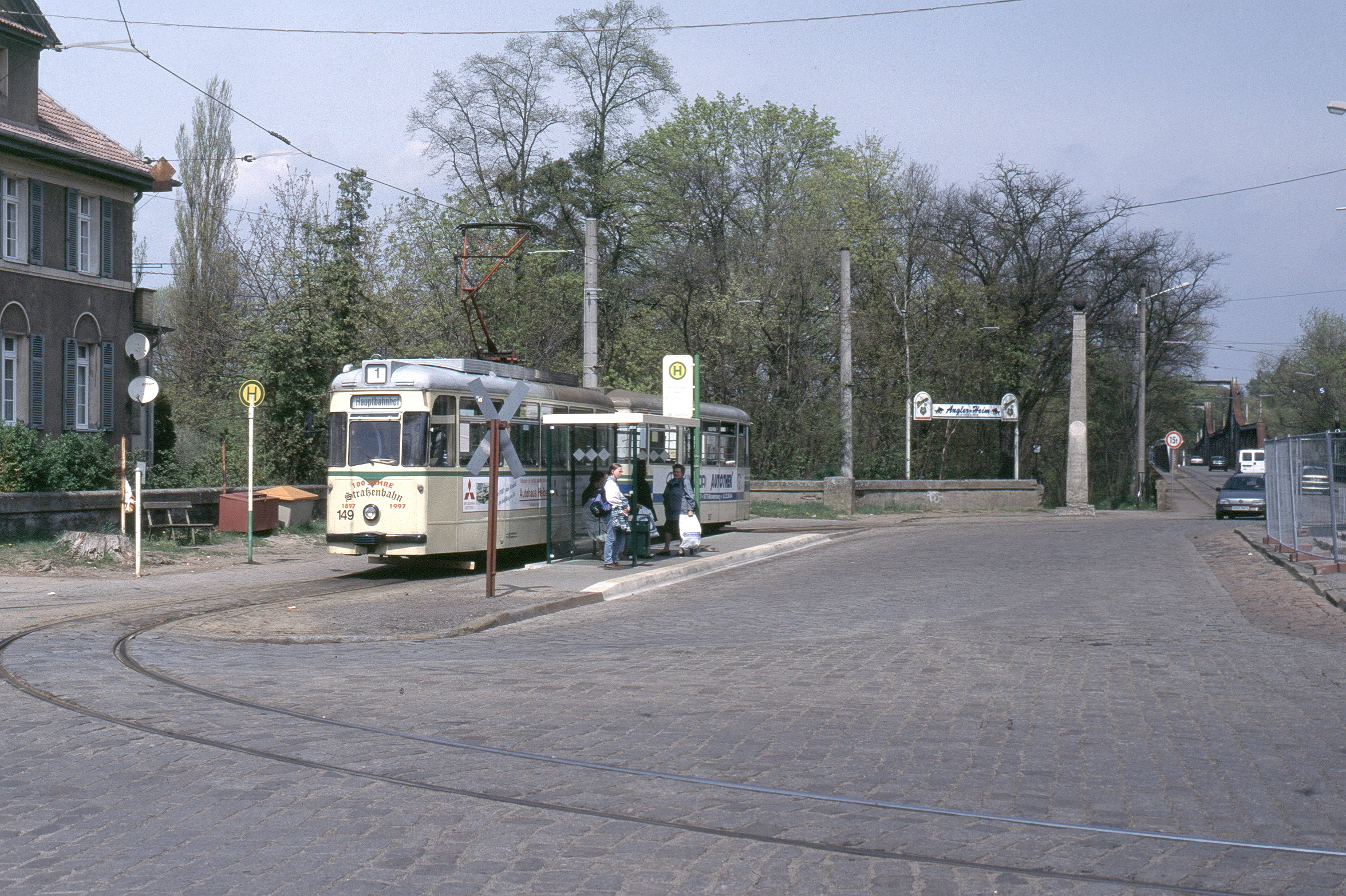 Kirchmöser tramway terminus